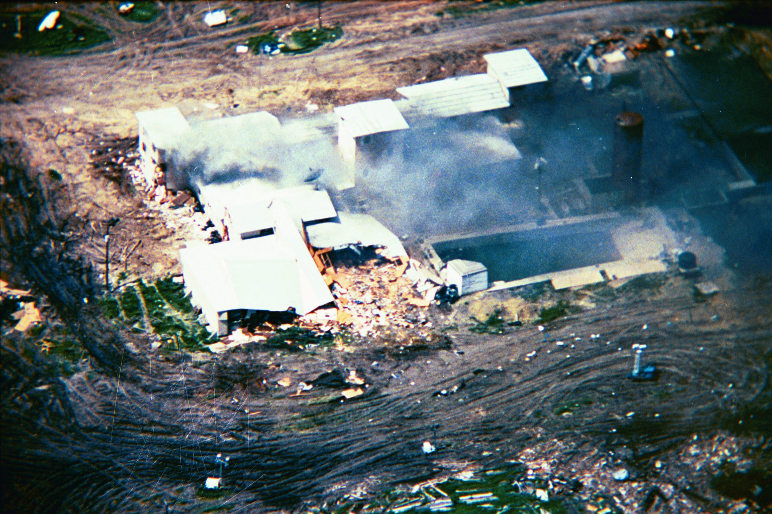 Smoke from second floor bedroom increases and spreads across back of building.